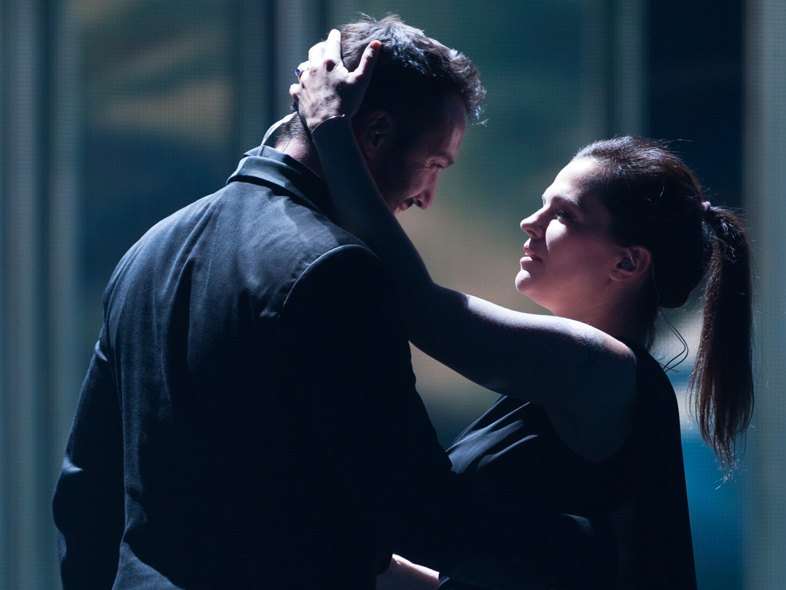 Eurovision Song Contest Vienna 2015: Marta Jandová & Václav Noid Bárta